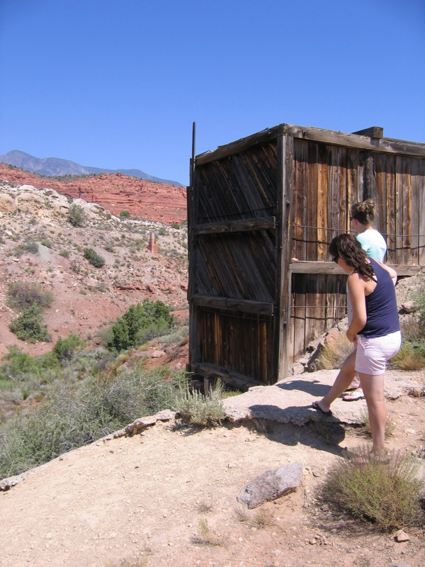 Silver Reef ghost town, old ore bin